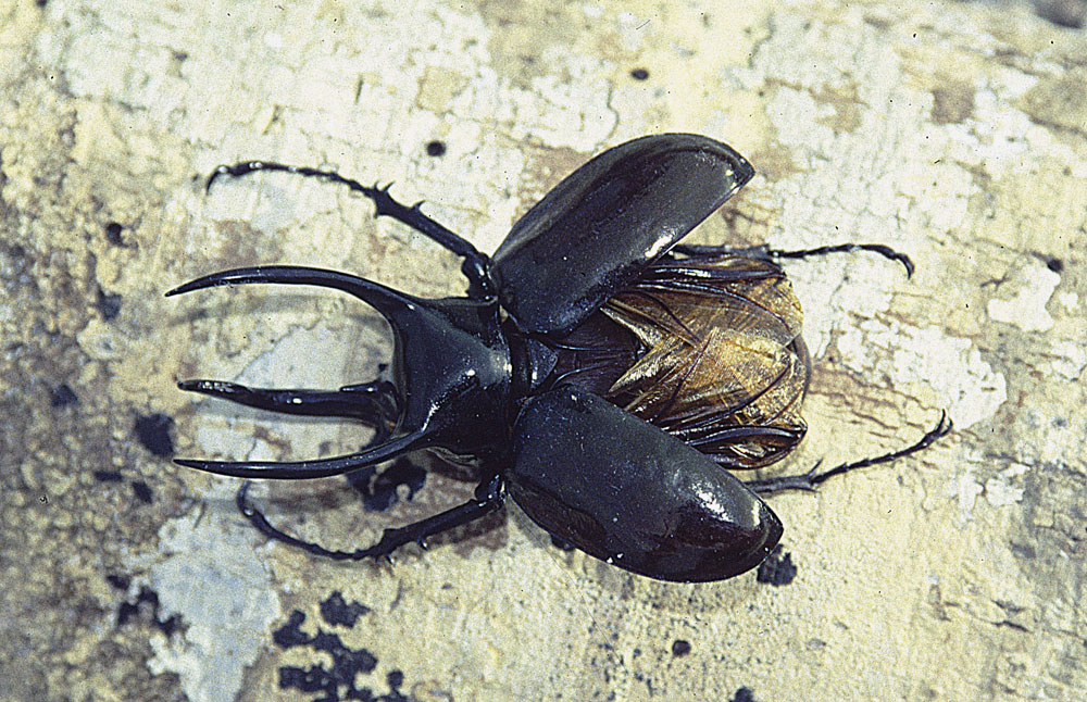 The giant Asian Rhinoceros Beetles do have wings under their carapace, but I have been unable to get one to try flying. In context at